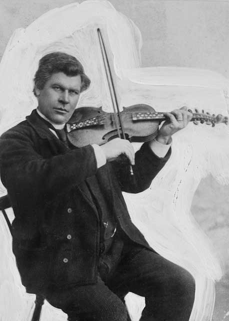 Sjur Larsson Helgeland (19 August 1858 − 12 April 1924) was a Norwegian hardingfele fiddler and composer from Voss. Here photographed by Bergen photographer Hulda Marie Bentzen guess at 1890